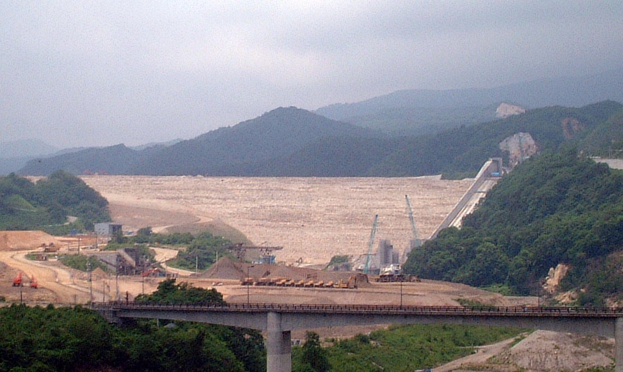 Isawa Dam